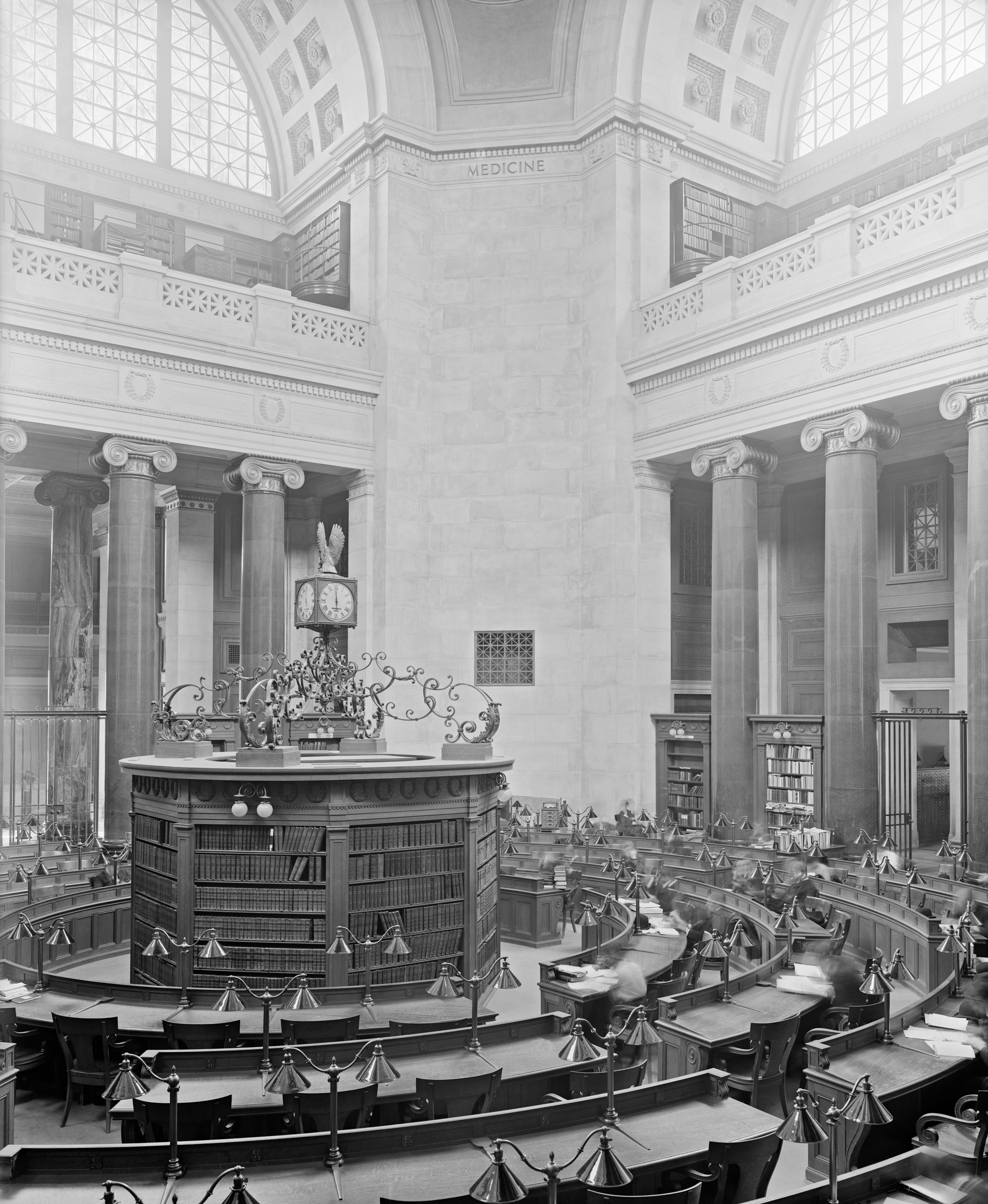 Low Library rotunda, Columbia University, New York City. Historic photograph taken before the library's conversion to an administration building.